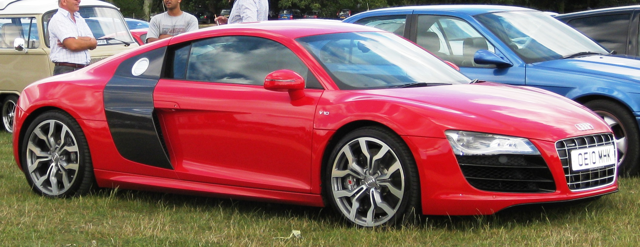 Audi R8 at Beaulieu German Autofest